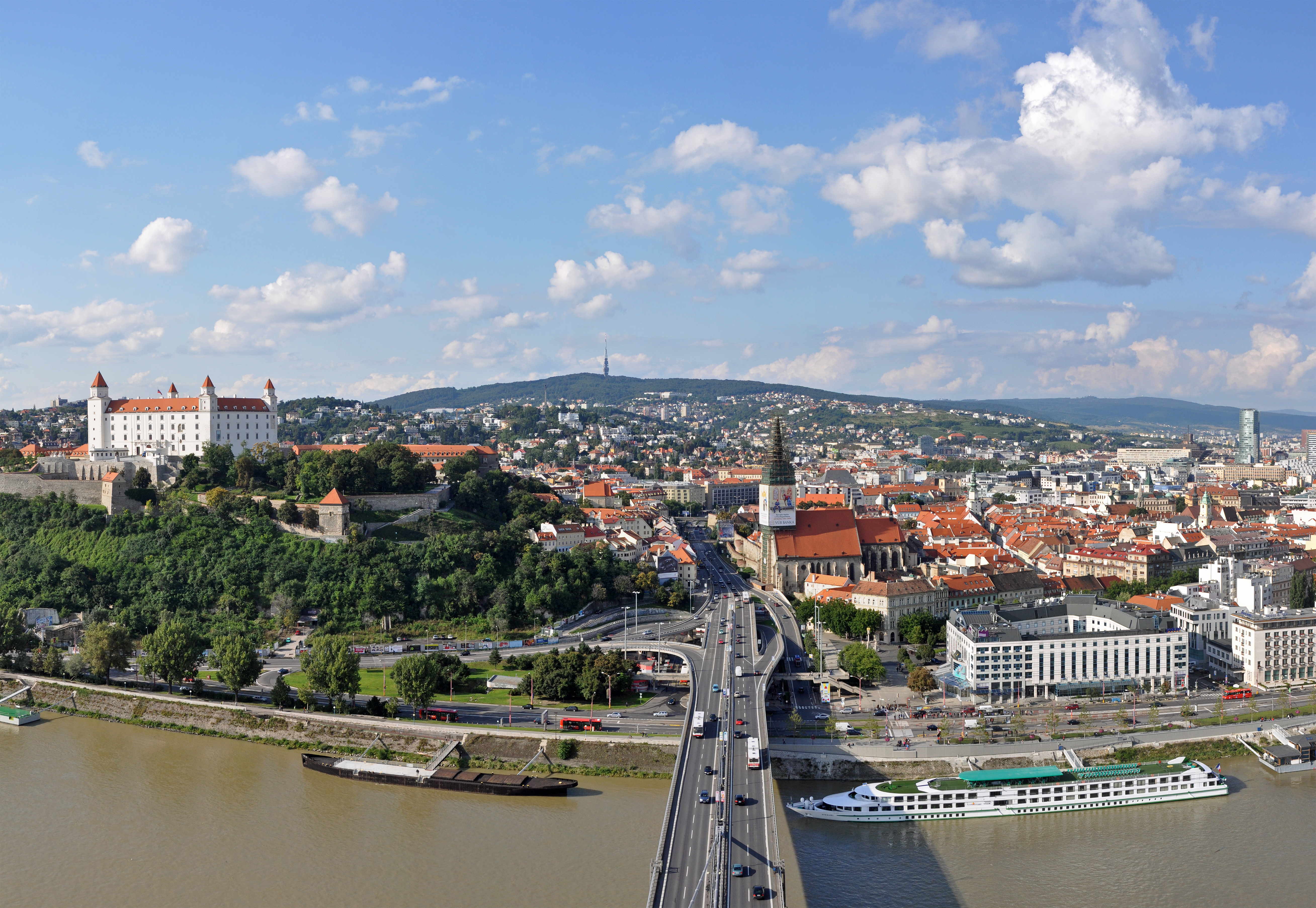 Bratislava (Slovakia): general view of the town